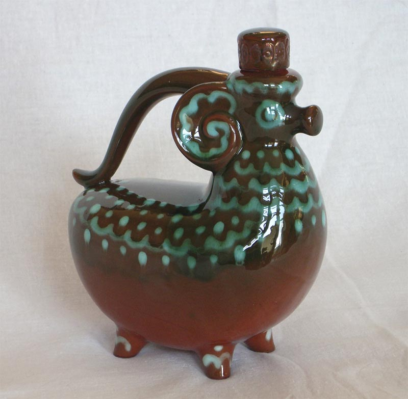 Majolica of the soviet sculptor Bronislav Bystrushkin (1926-1977). Lomonosov's Porcelain Factory, Leningrad, USSR